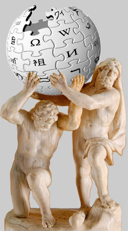 Atlas and Hercules carrying a sphere. Ivory, 17th century.